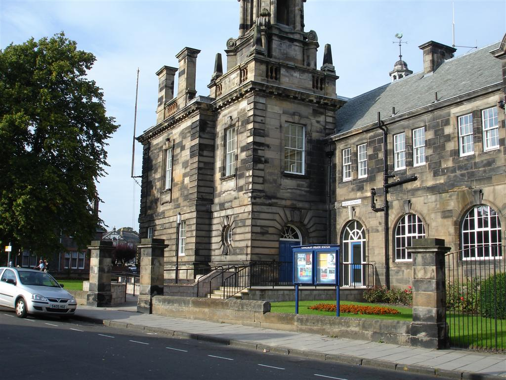 Kirkcaldy Police Station.